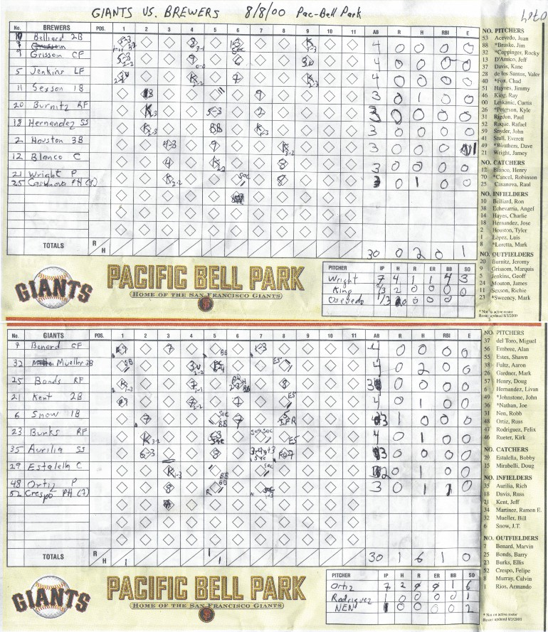 This is a scorecard from a baseball game I scored. It was a game between the San Francisco Giants and the Milwaukee Brewers. It was held on August 8,2000 at (then)Pacific Bell Park. The scorecard (blank) scorecard itself was provided as a freebie in issues of the San Francisco Chronicle purchased at the ballpark. The actual scoring is mine. I don't claim its perfect - I'm a so-so scorer.